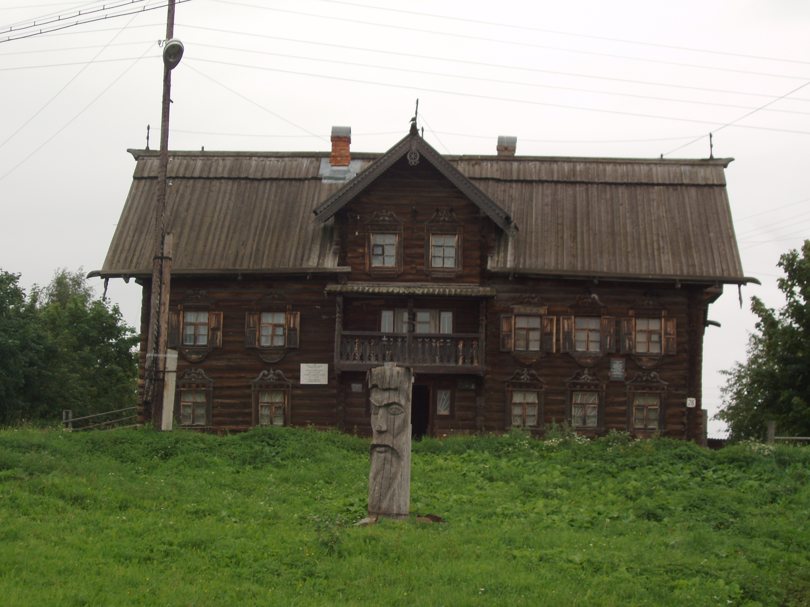 Vepsians Museum — an ethnographic museum on the Vepsians of the Karelia Region. The Veps or Vepsians are Finnic people that speak the Veps language, which belongs to the Finnic branch of the Uralic languages. Located in Shyoltozero, in the present day Republic of Karelia, northwestern Russia.